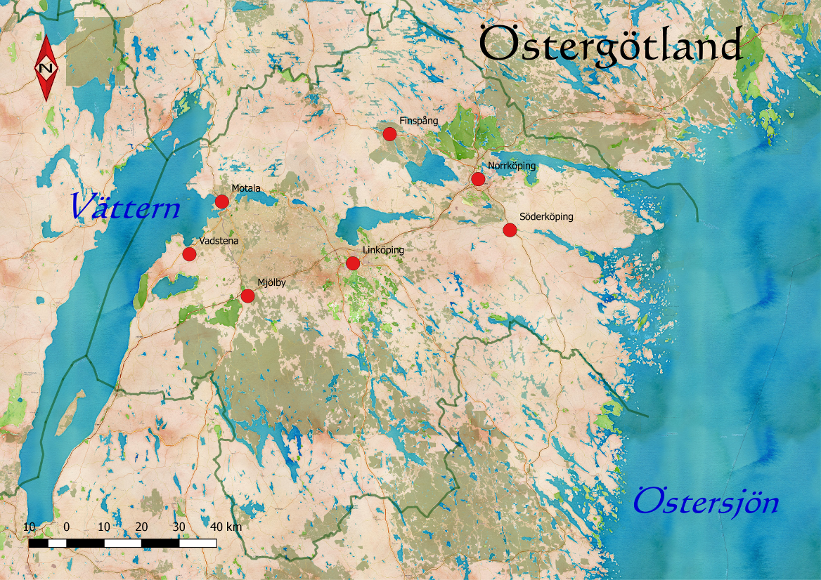 A simplified map for the Swedish region Östergötland intended to be used by children in elementary school. This map may be incomplete, and may contain errors. Don't rely solely on it for navigation.